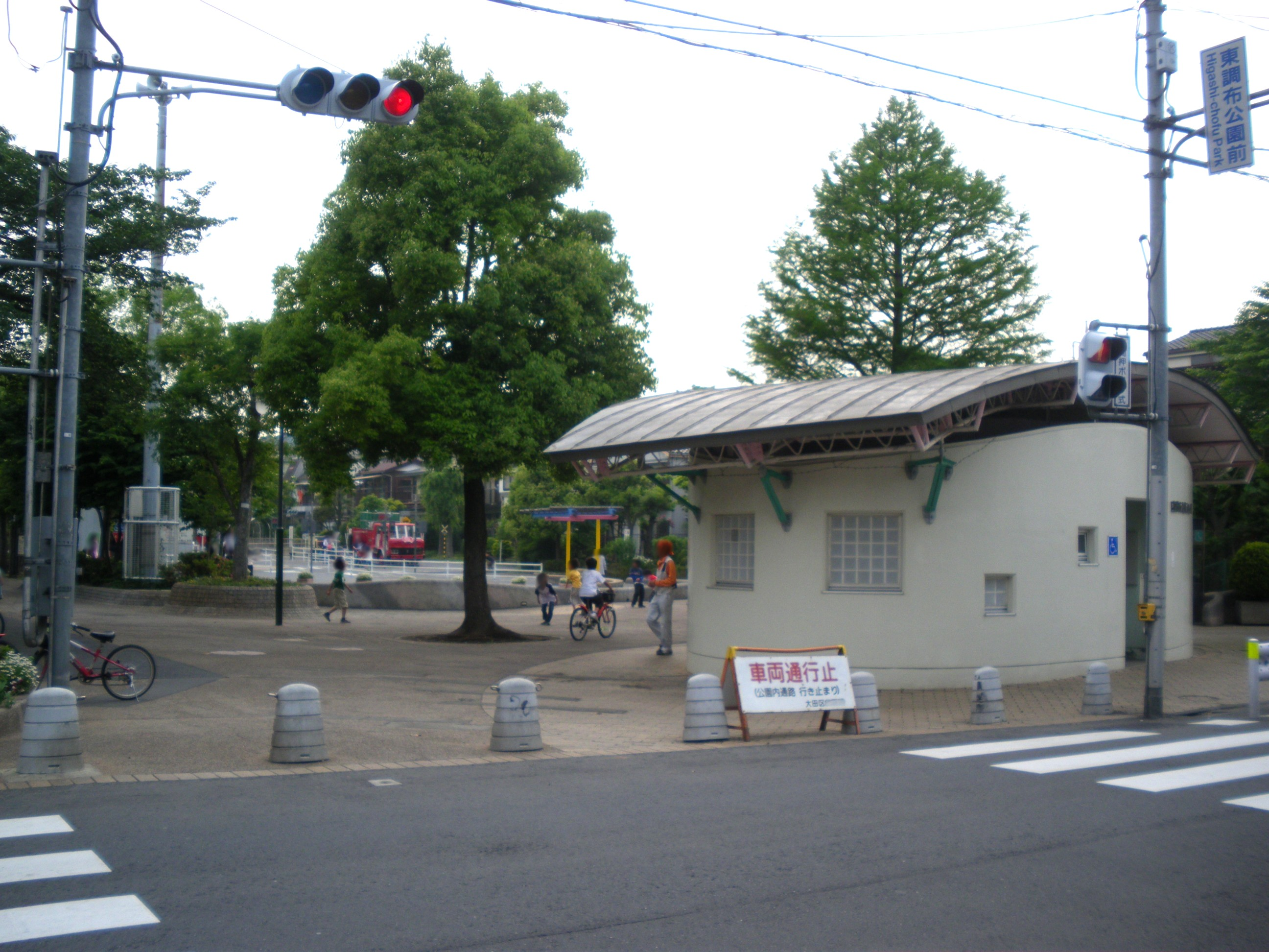 Higashichofu Park in Minamiyukigaya, Ota Ward, Tokyo, Japan